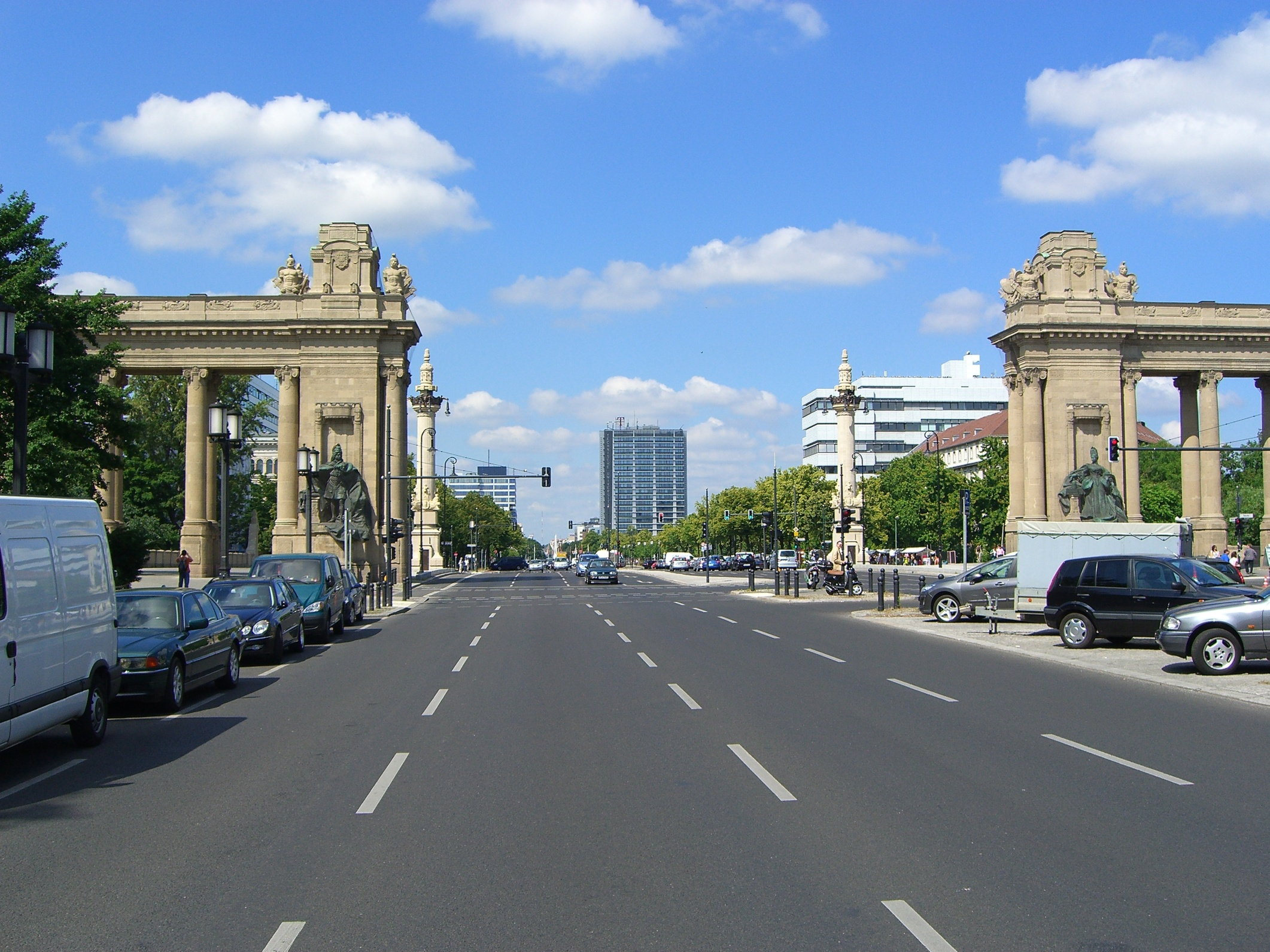 "Charlottenburg Gate" in Berlin; in the background the reconstructed candelabra.